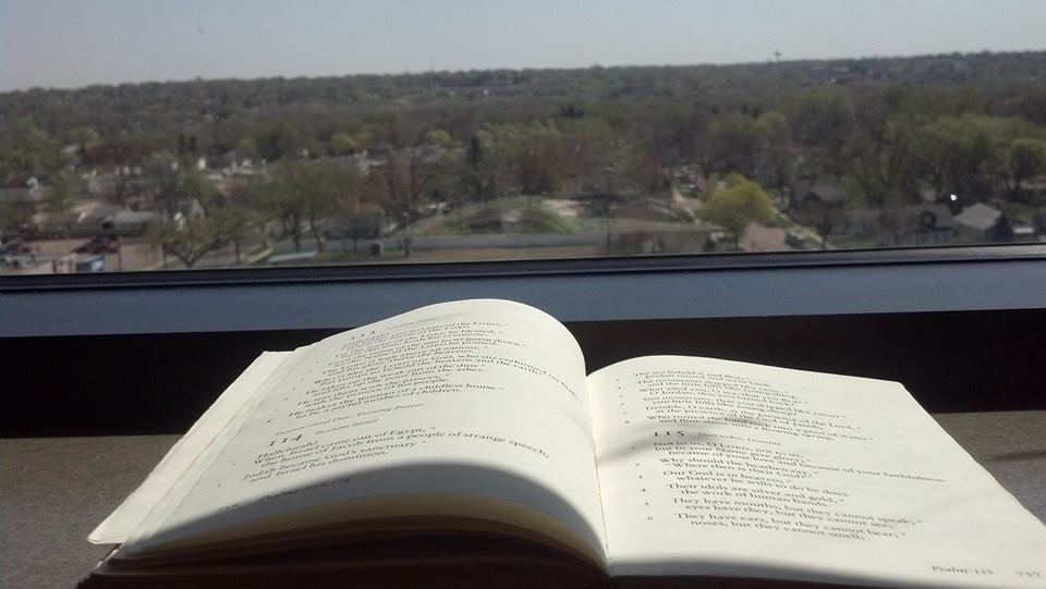 Day to Praise held at the Church of the Good Shepherd in Sioux Falls, South Dakota USA, 23 April 2015